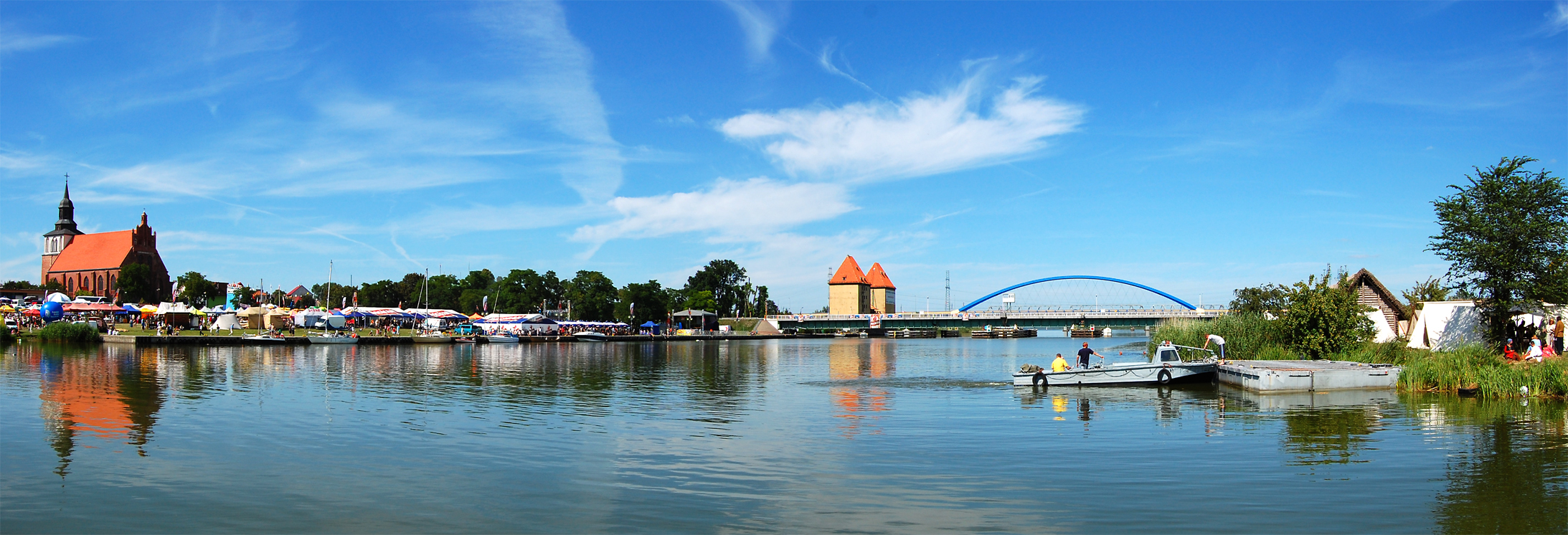 Dziwna